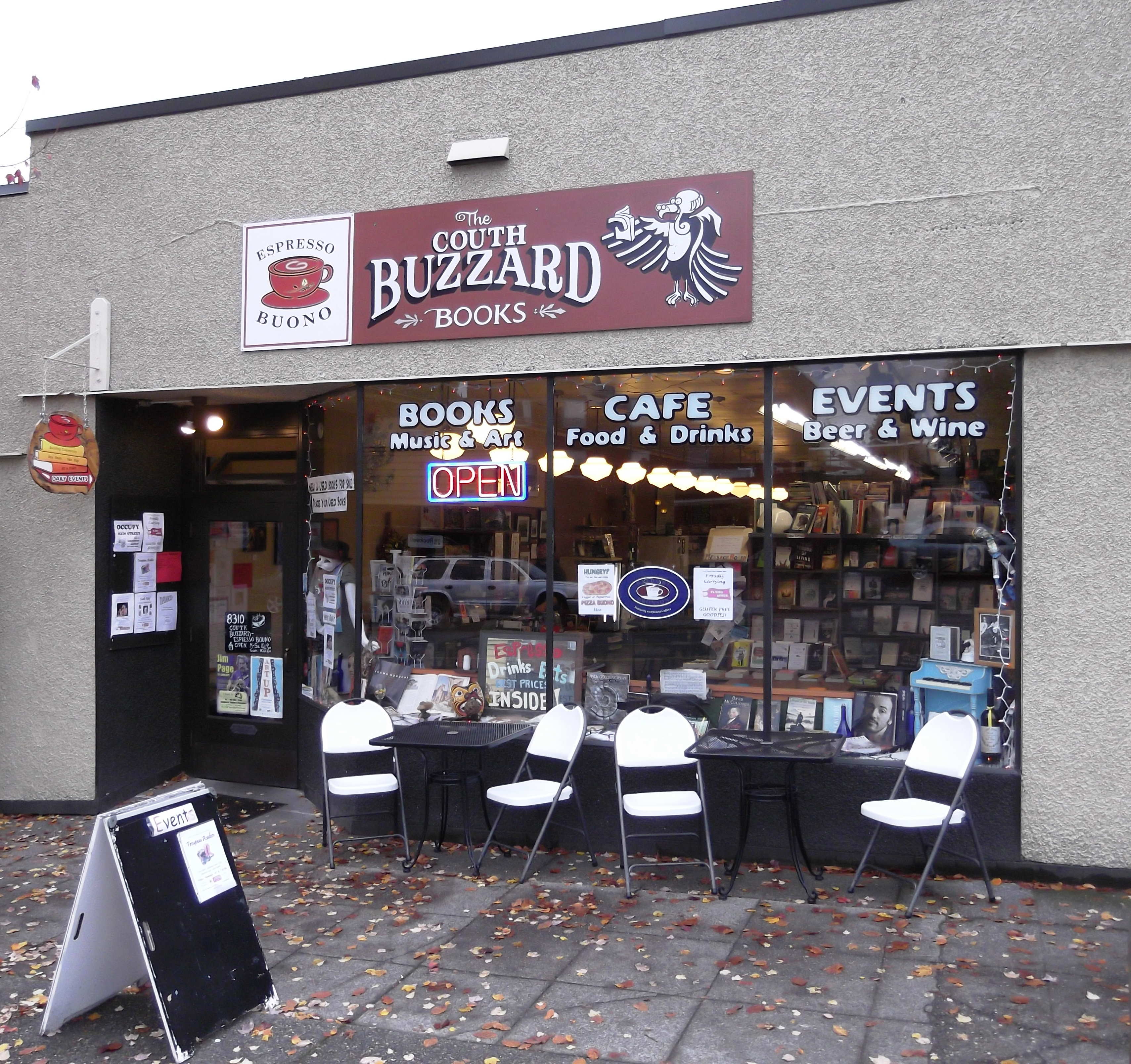 One of my favorite bookstores, which closed in 2008 is now open again. The combination of books and a nice cafe makes this a great place to hangout in the Greenwood neighborhood of Seattle